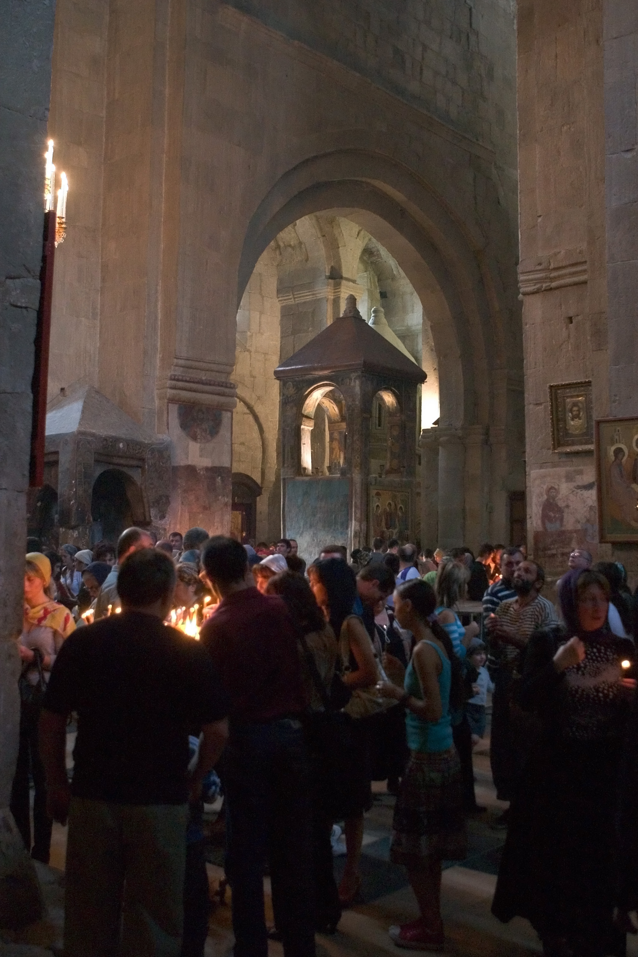 Crowded cathedral in Mtskheta during the Mtskhetoba festival.